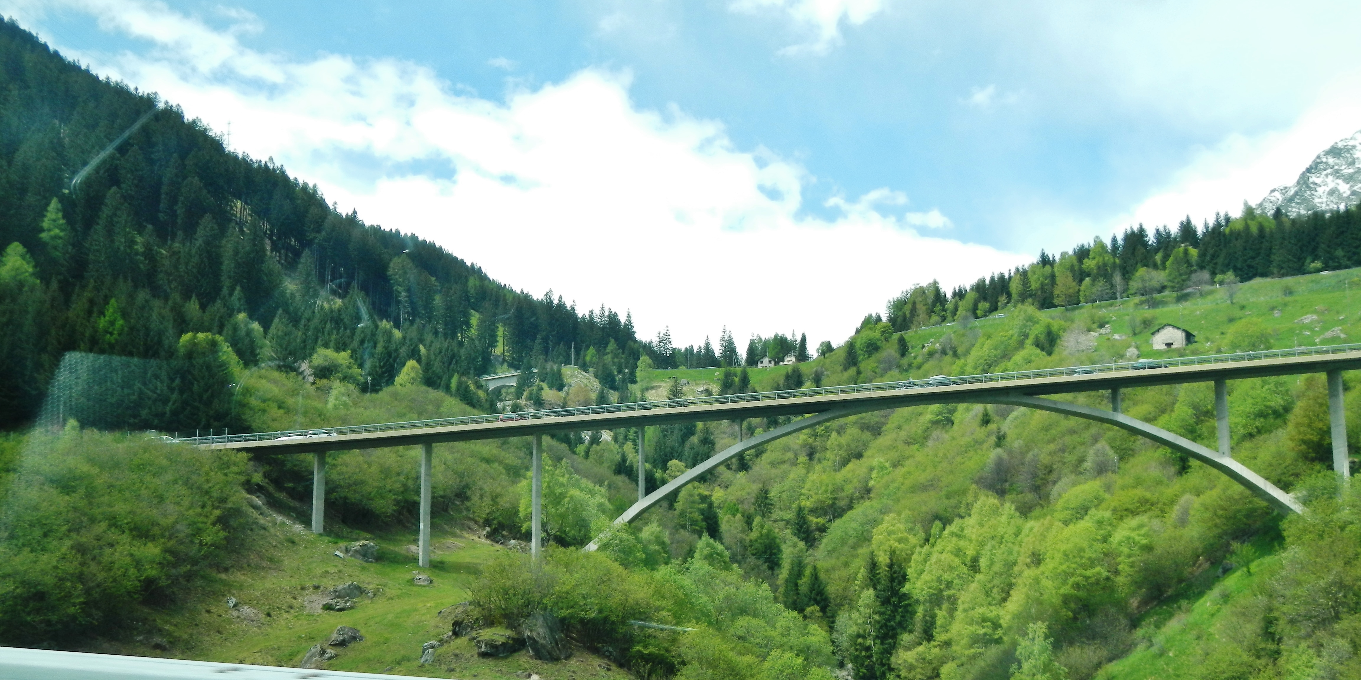 View from A13 San Bernadino